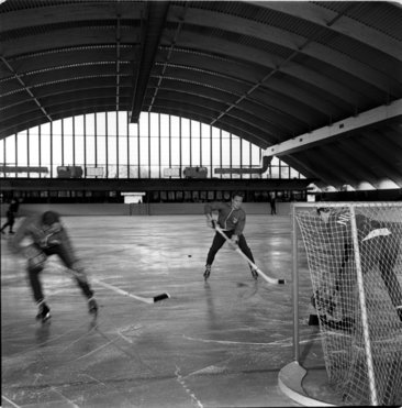 Photographer: unknown